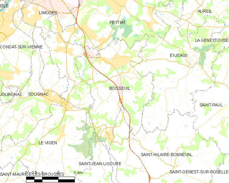 Map of French municipality Boisseuil